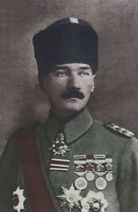 Kemal Atatürk (or alternatively written as Kamâl Atatürk, Mustafa Kemal Pasha until 1934, commonly referred to as Mustafa Kemal Atatürk; 1881 – 10 November 1938) was a Turkish field marshal, revolutionary statesman, author, and the founding father of the Republic of Turkey, serving as its first President from 1923 until his death in 1938. He undertook sweeping progressive reforms, which modernized Turkey into a secular, industrial nation. Ideologically a secularist and nationalist, his policies and theories became known as Kemalism. Due to his military and political accomplishments, Atatürk is regarded as one of the most important political leaders of the 20th century.